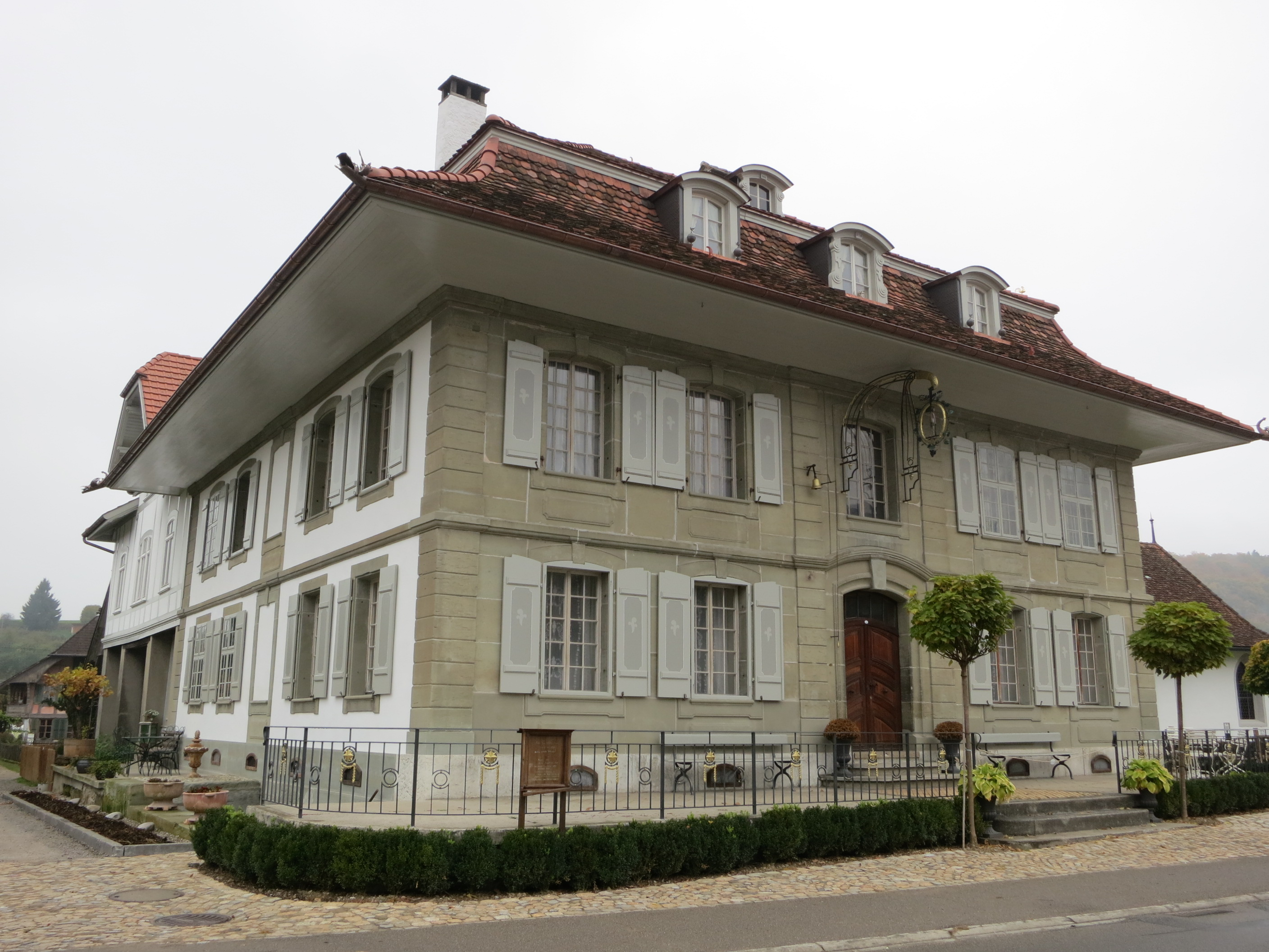 ehemaliger Gasthof Wilder Mann, Wynigen BE, Schweiz